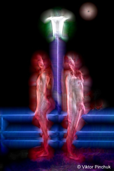 Work from album Pinchuk V. "NUances of Fantasy", ISBN 978-5-9909912-2-4.